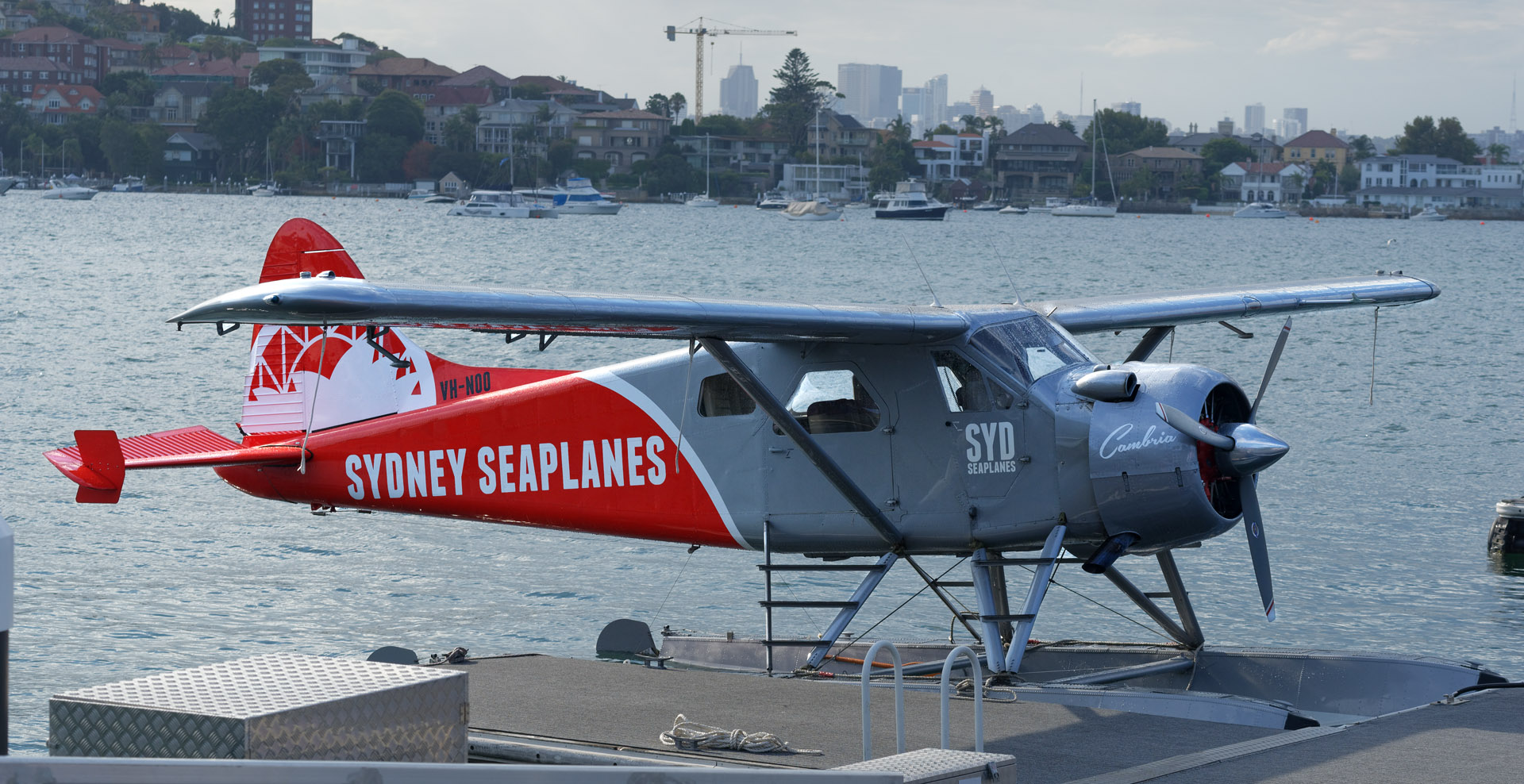 Photo of ill fated Sydney Seaplane taken Jan 10, 2017. Crashed on 31 Dec, 2017